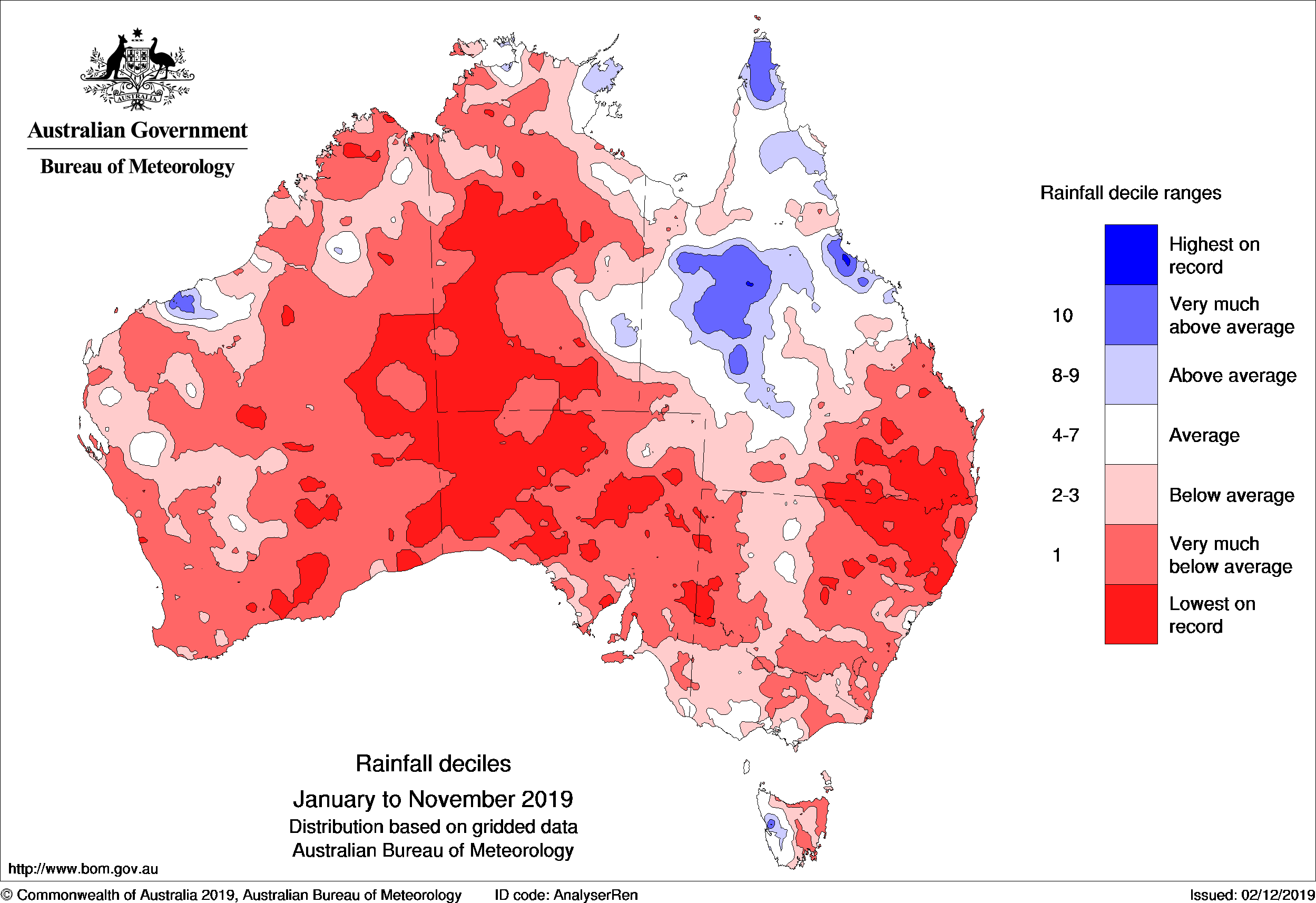 Figure shows significantly large portions of Australia undergoing either 'Below average', 'Very much below average' or 'Lowest on record' rainfall throughout the January to November 2019 period.